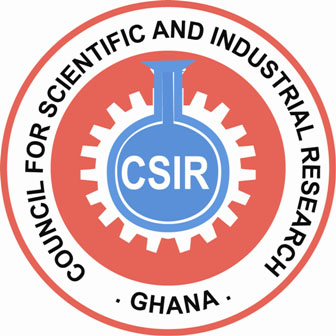 Council for Scientific and Industrial Research – Ghana logo.